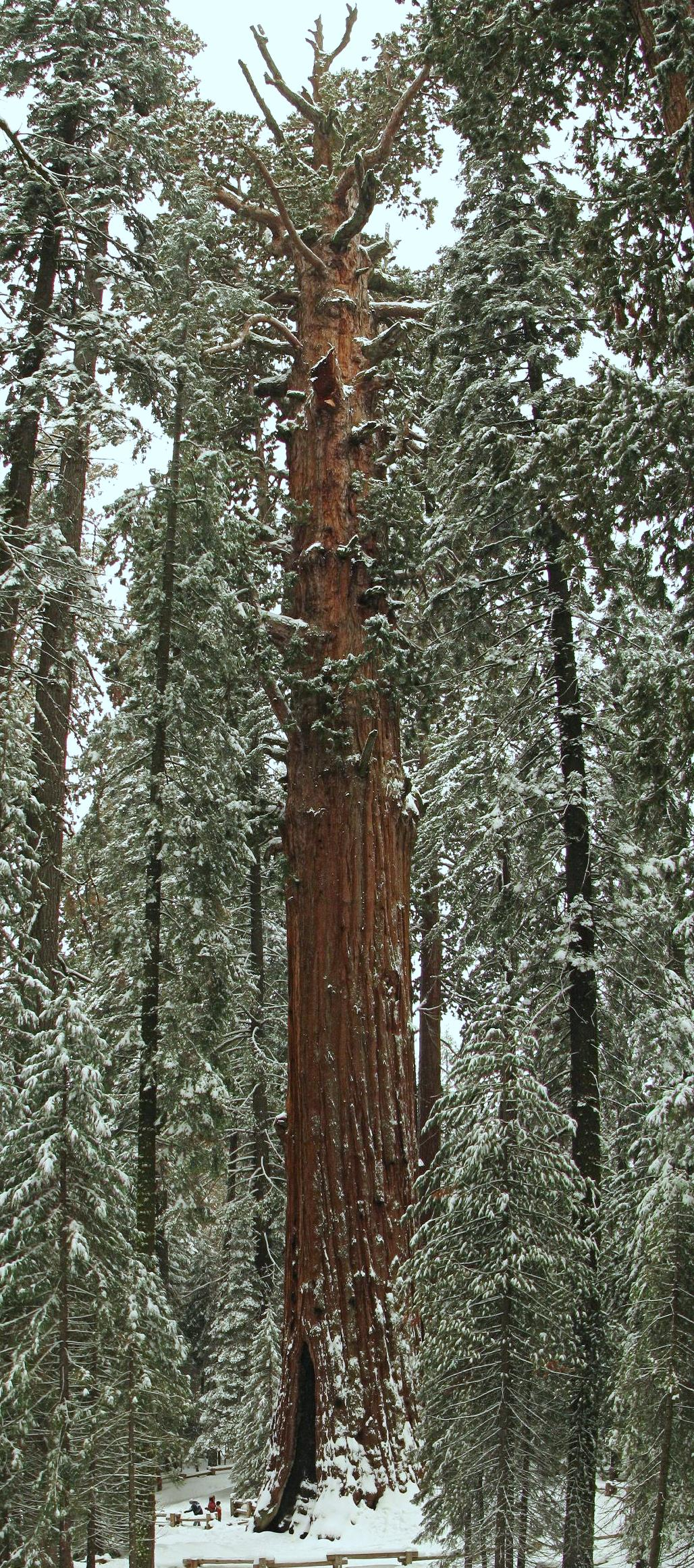 The General Sherman tree in Sequoia National Park